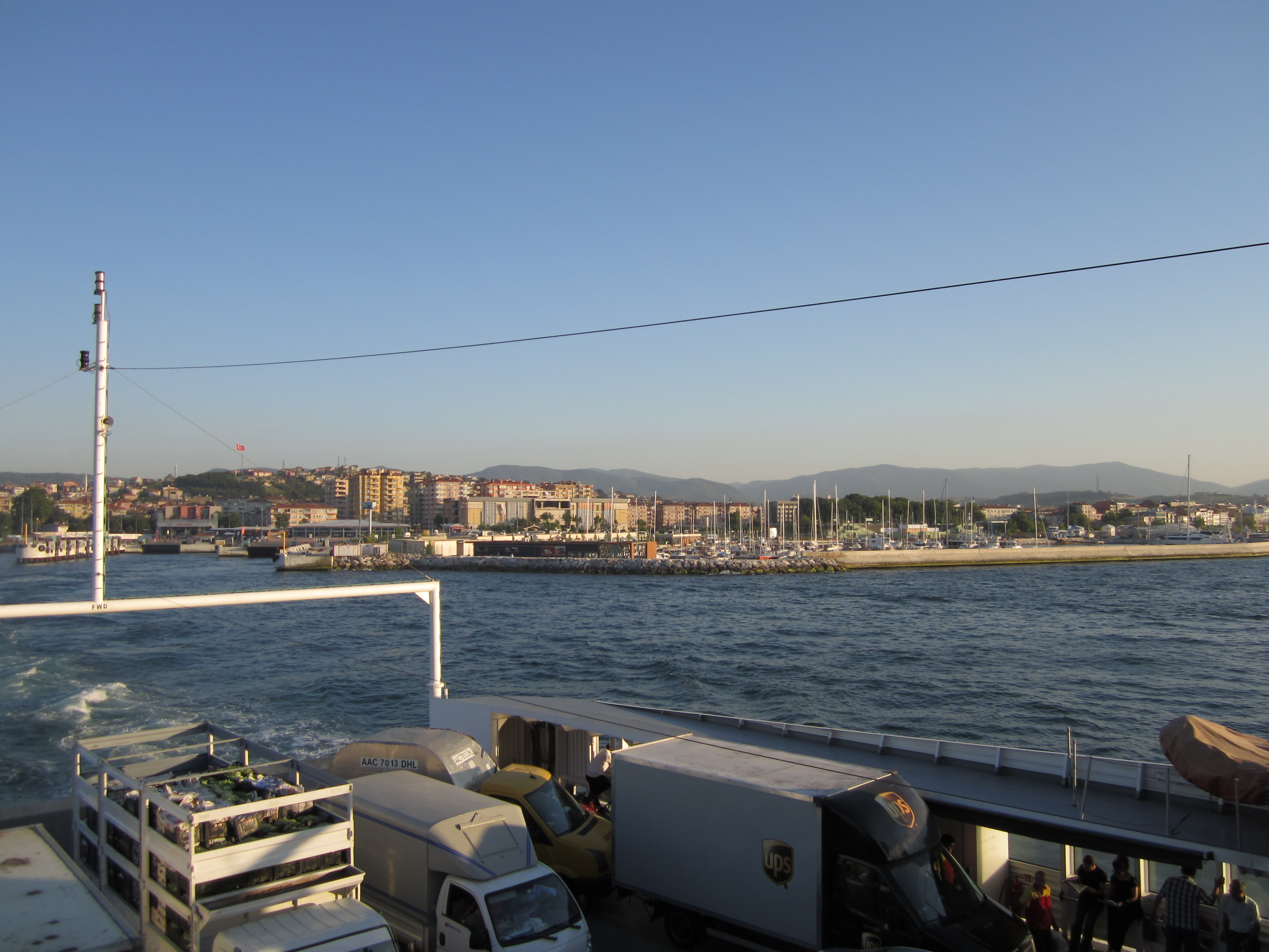 Departing from Yalova Tureky, toward Yenikapi, with IDO